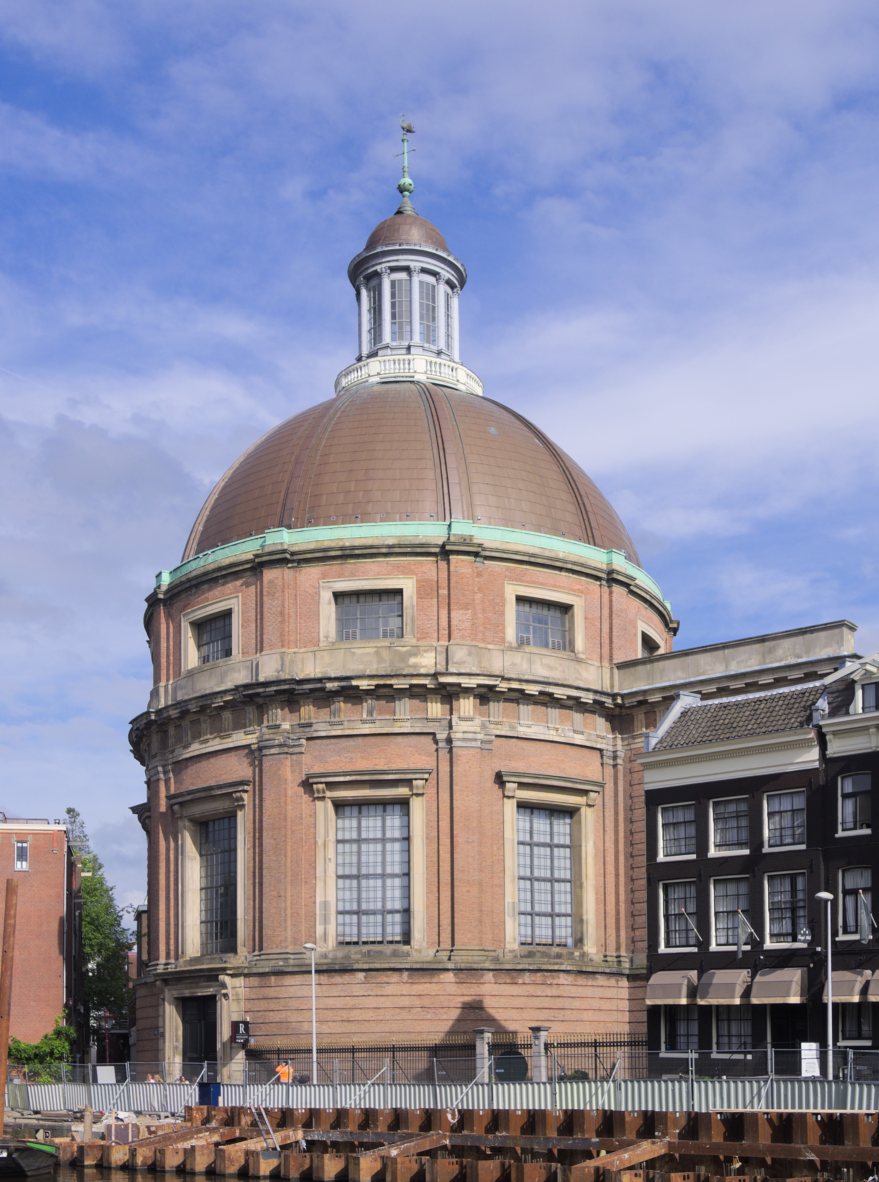 View of the Ronde Lutherse Kerk, Amsterdam, from across Singel.